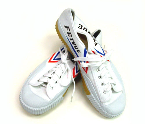 This is a pair of the original white FeiYue Shoes